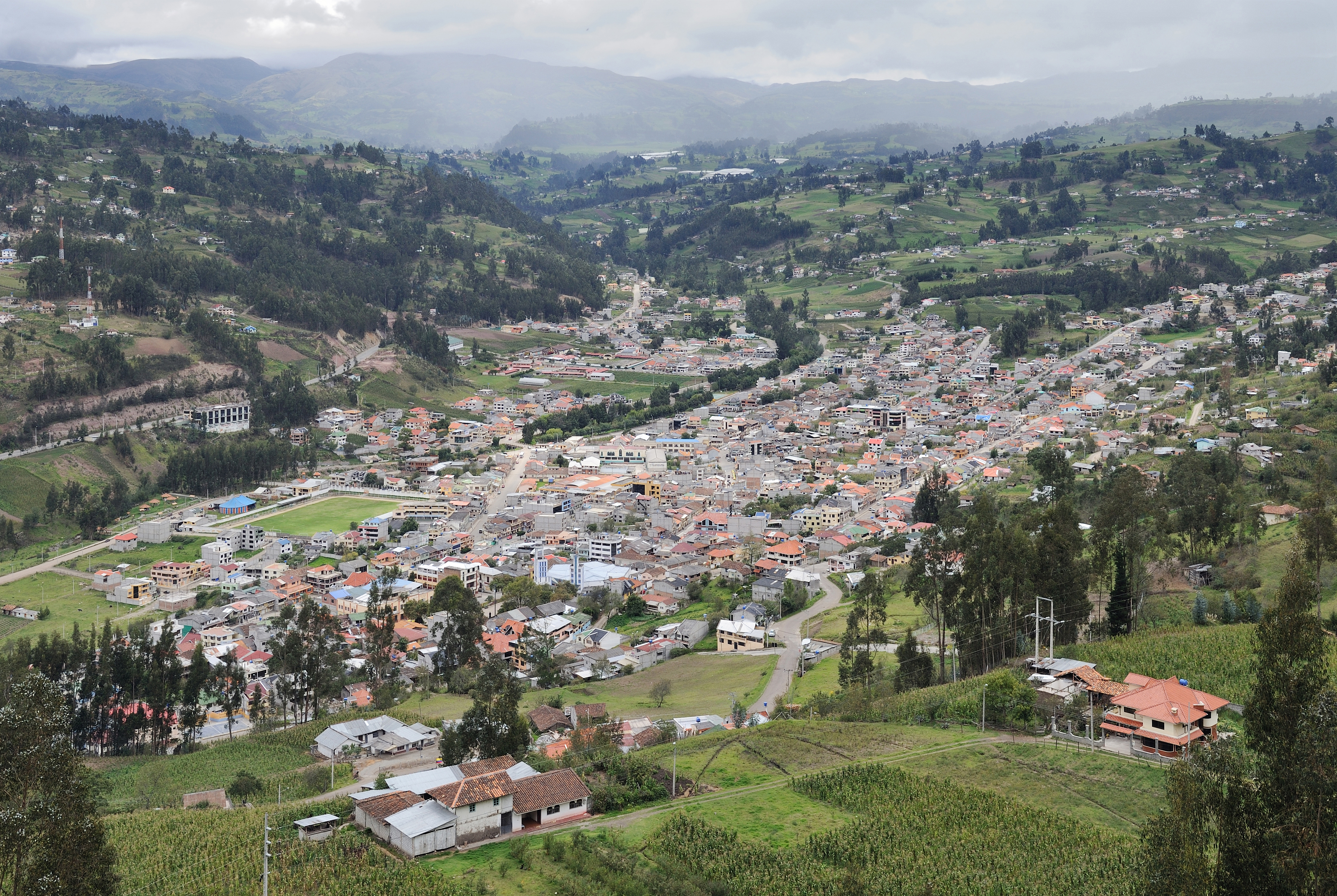 Ecuador, province of Cañar: the town of Biblián, seen from the church Santuario de la Virgen del Rocío (Virgin of the Dew).